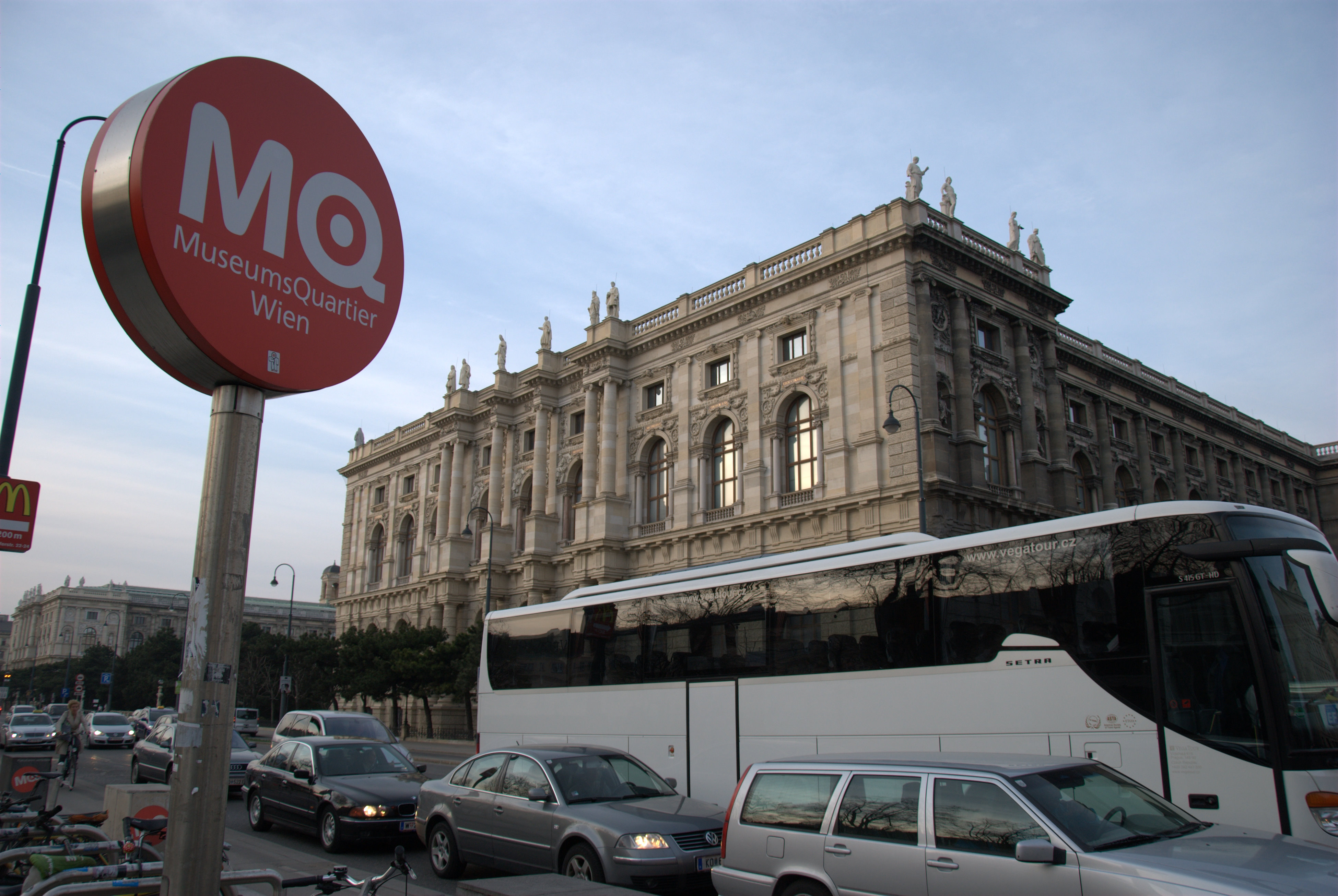 Entrance to Museumsquartier in Vienna